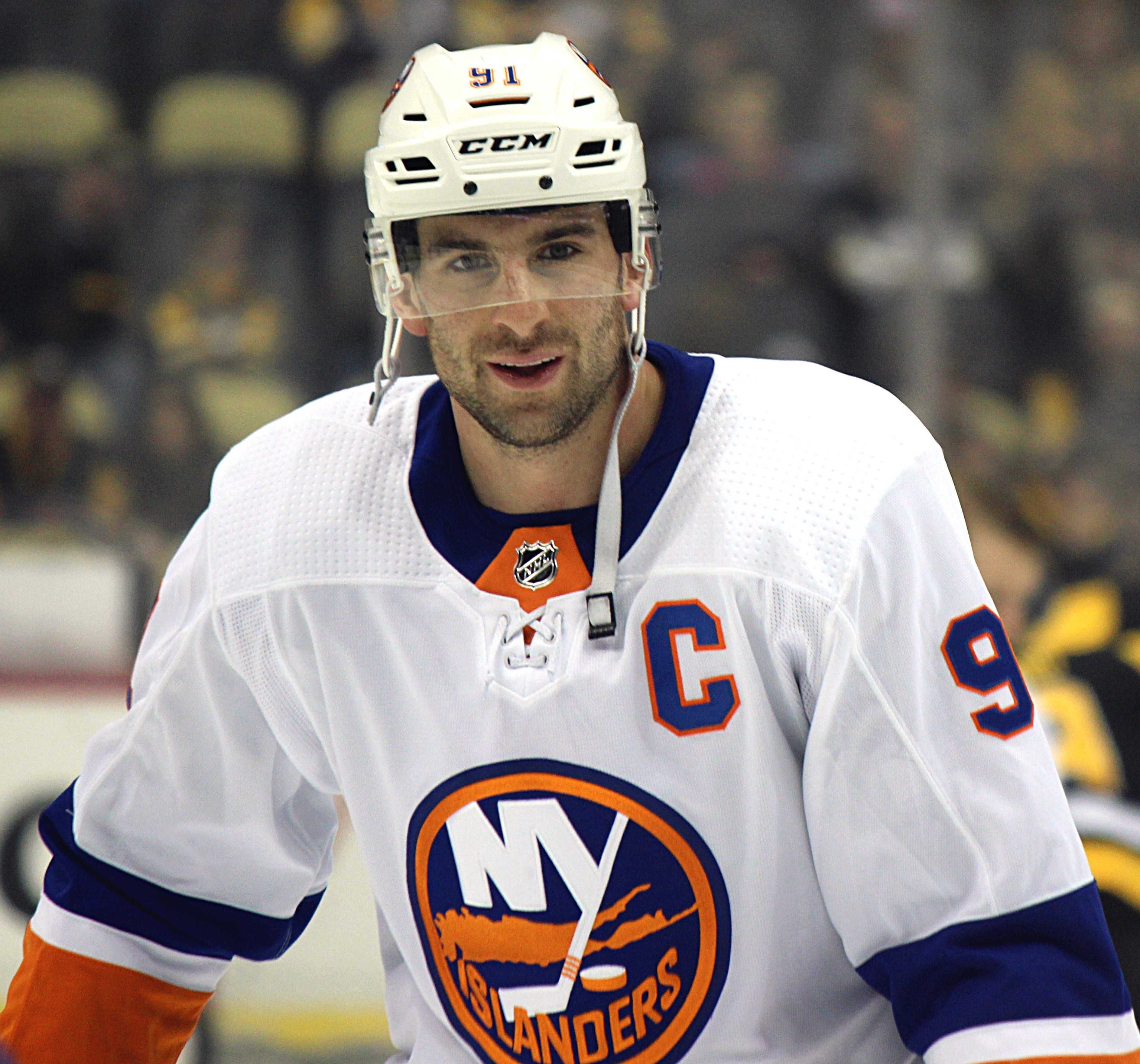 New Yorks Islanders forward John Tavares during a game against the Pittsburgh Penguins at PPG Paints Arena in Pittsburgh, PA. Saturday, March 3, 2018.